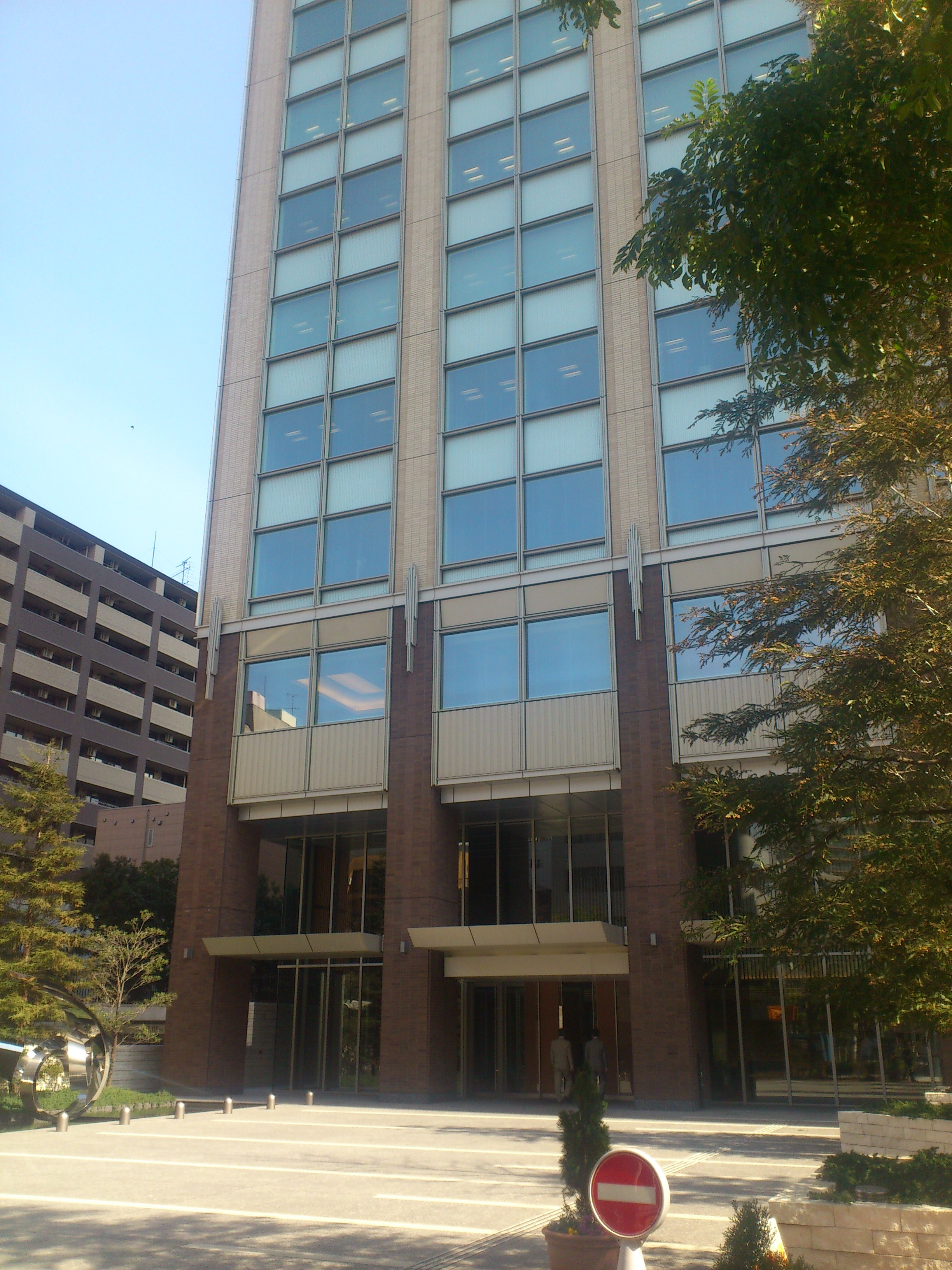 2-10-2,Higashigotanda,Shinagawa-ku,Tokyo,JP